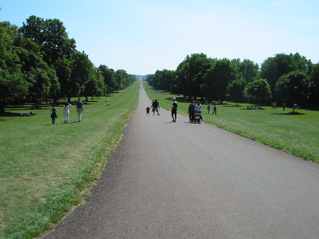 The Long Walk, Windsor. This photo is looking south down the Long Walk. It is very popular for walkers, joggers and picnicers.